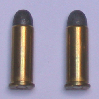 .38 Long Colt lead round-nose cartridges